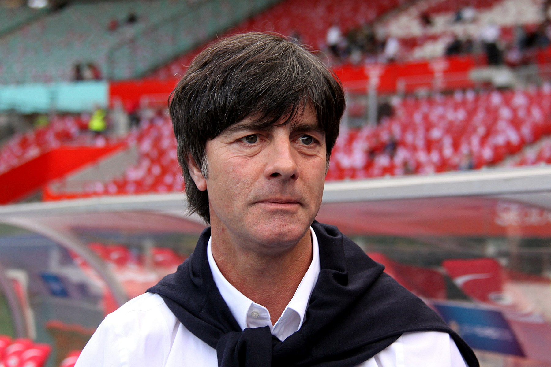 Joachim Löw, head coach of the german national football team - OpenStreetMap(Info)